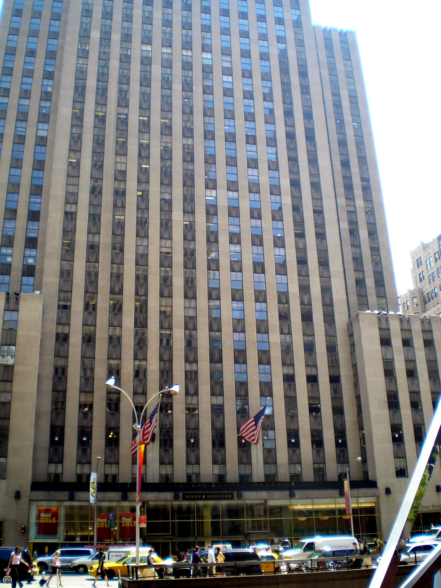 Simon and Schuster Building in Rockefeller Center, New York City.